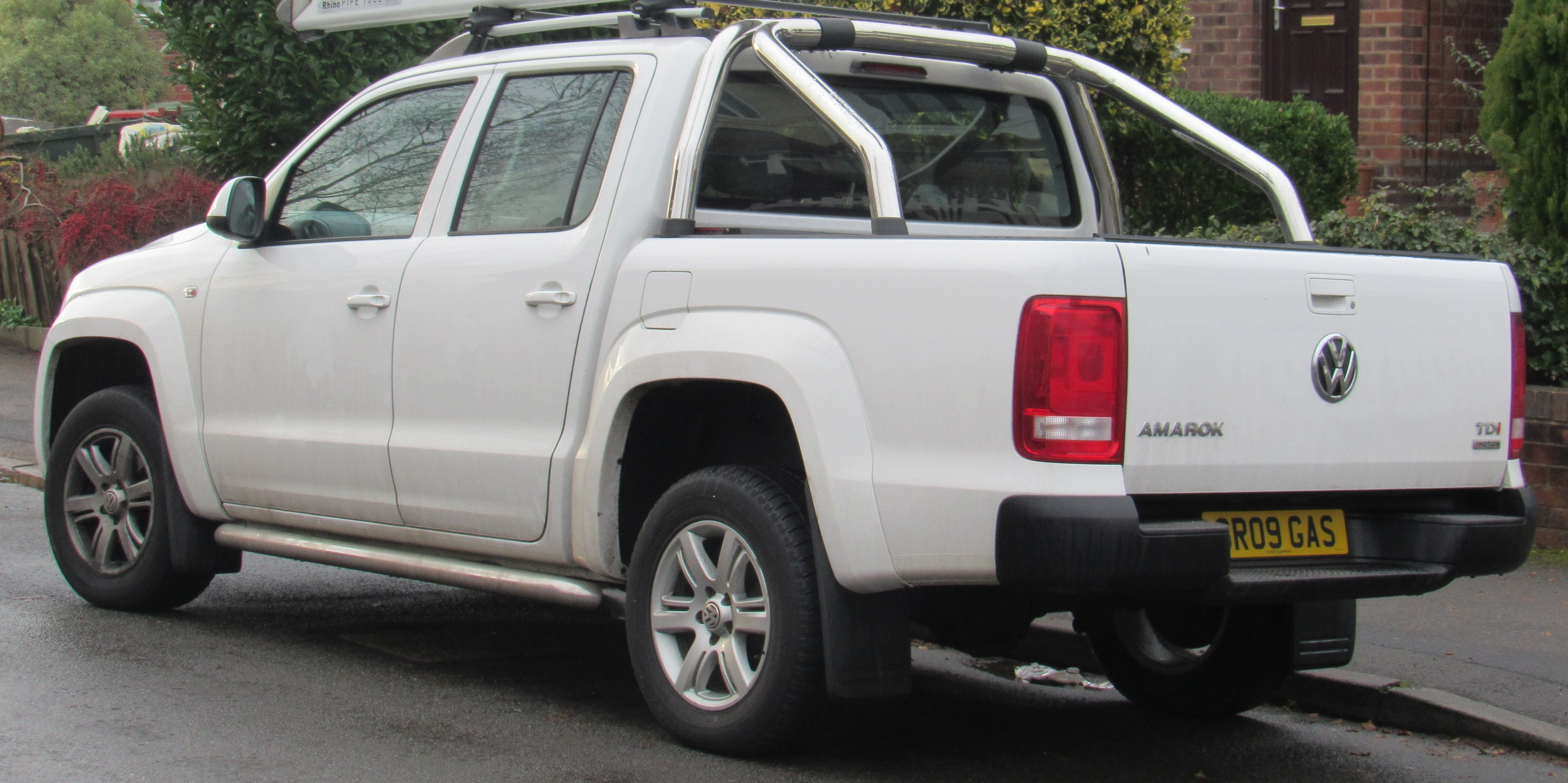 2016 Volkswagen Amarok Trendline TDi 4MOTION 2.0 Rear Taken in Warwick